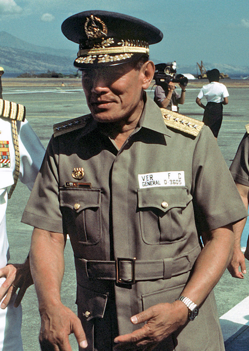 National Archive# NN33300514 30 Jun 2005; Released to Public;ID: DNST8207724 Service Depicted: Multi-National CAPT James McCullough welcomes Philippine Army GEN F.C. Ver (brown uniform, front) and BGEN V.M. Piccio (rear), to the station.Camera Operator: PH2 BALLARD